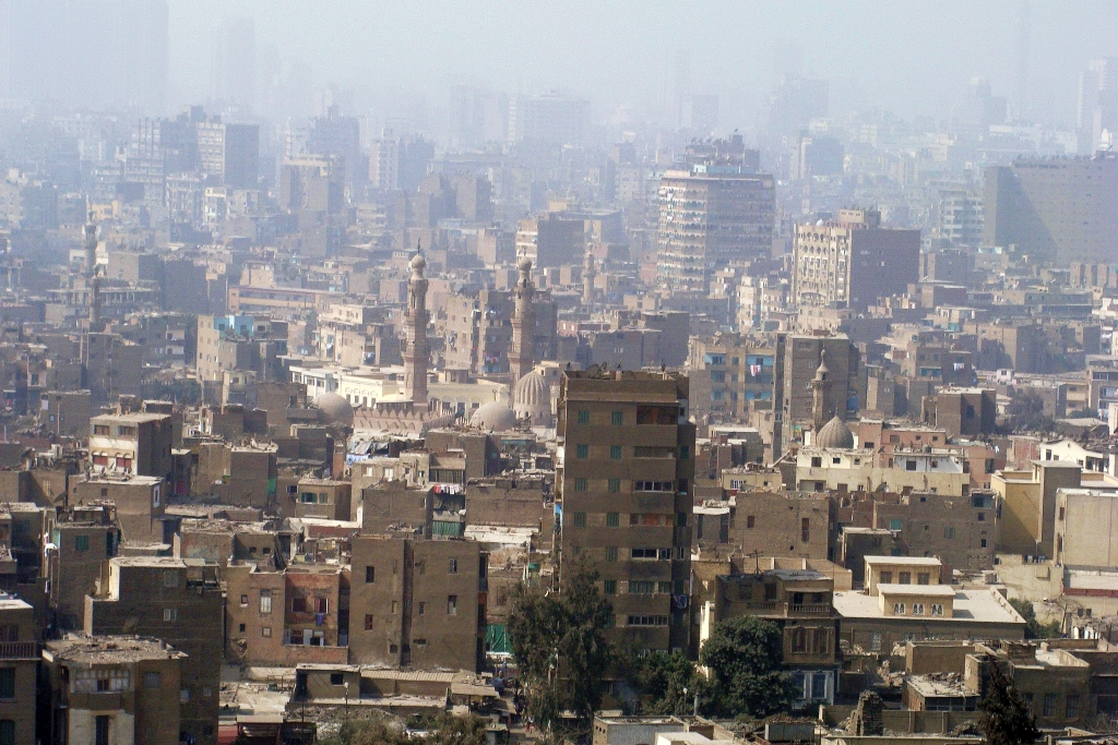 Cairo in smog, Feb. 2010